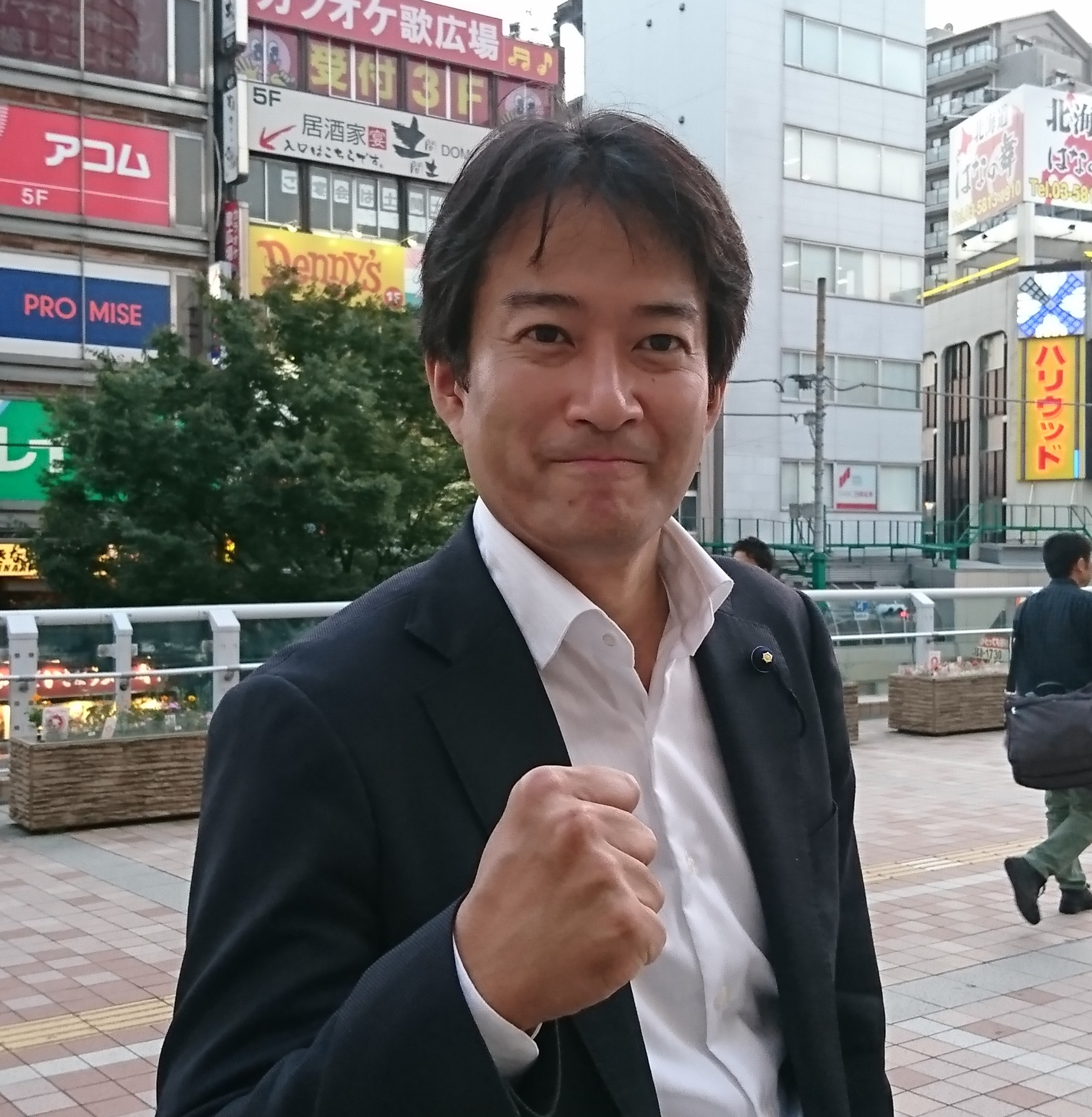 Hirofumi Yanagase, member of Tokyo Metropolitan Assembly. October 10th 2017, in Kita-senju station